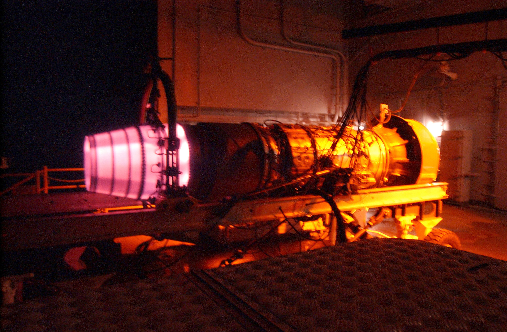 041201-N-0696M-093 Pacific Ocean (Dec. 1, 2004) - An EA-6B Prowler aircraft engine glows during testing at the Aviation Intermediate Maintenance Department's (AIMD) jet engine test cell aboard USS Ronald Reagan (CVN 76). AIMD is capable of completely testing any type of jet engine, up to full afterburners, from embarked air wing aircraft, creating a fully functional repair facility and maintaining aircraft readiness while underway. The nuclear-powered aircraft carrier is currently underway in the Pacific Ocean conducting routine carrier operations. U.S. Navy photo by Photographer's Mate 2nd Class Chad McNeeley (RELEASED)